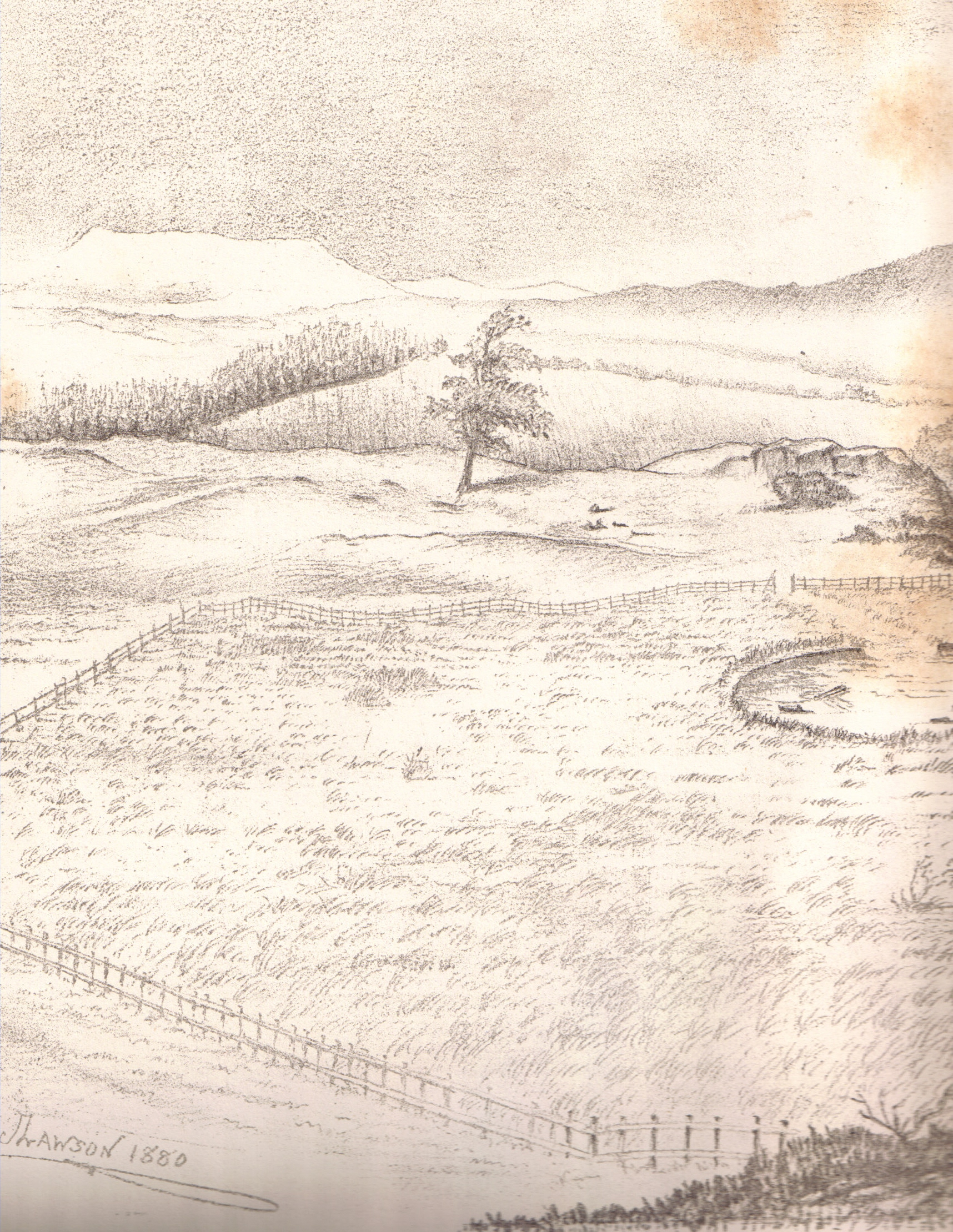 A view of the west side of Lochspouts Loch, Kirkoswald, South Ayrshire, Scotland.